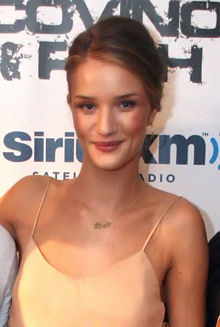 Actress and model Rosie Huntington-Whiteley at Covino & Rich Show in June 2011.